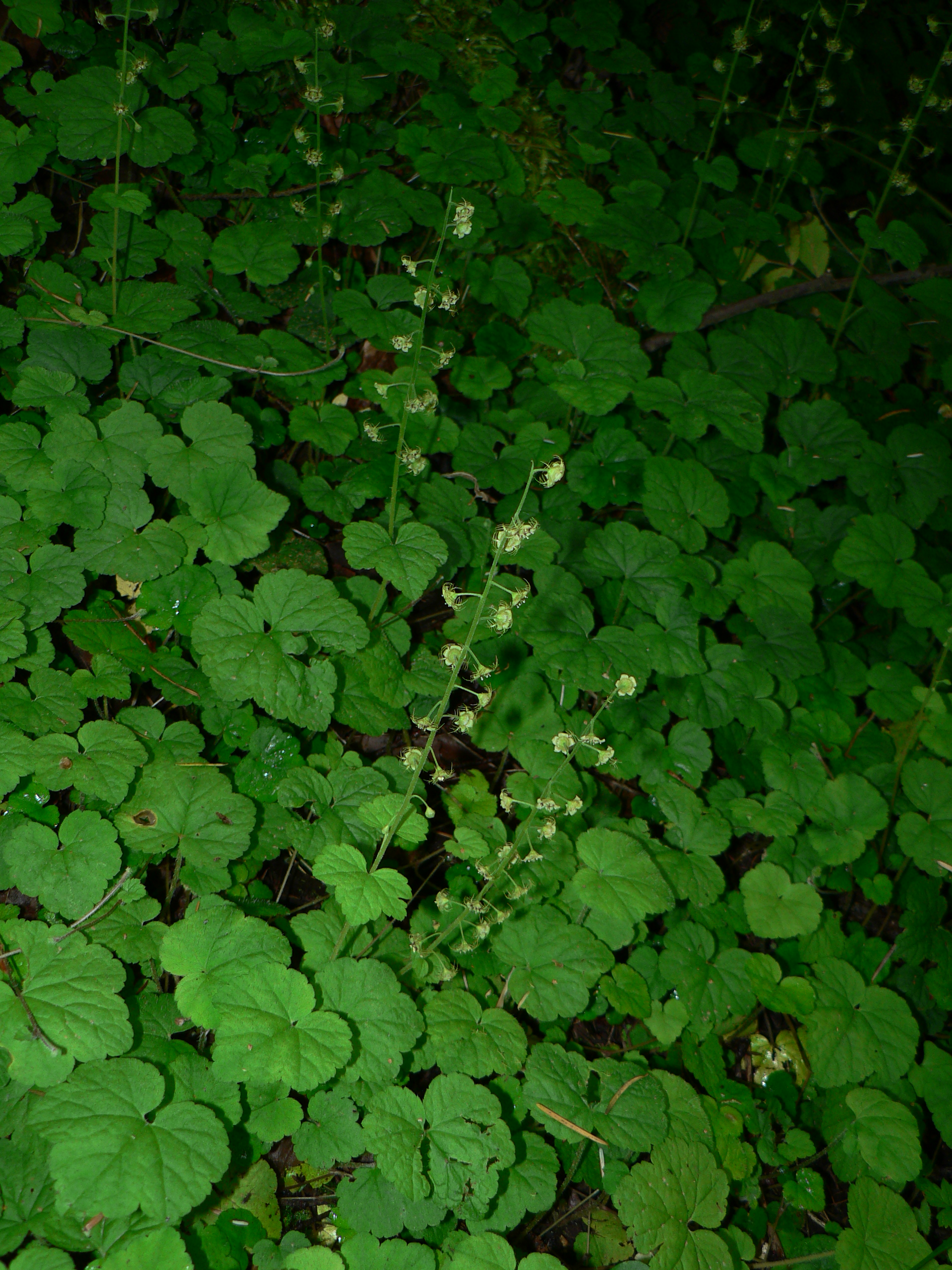 Slightstemmed Miterwort